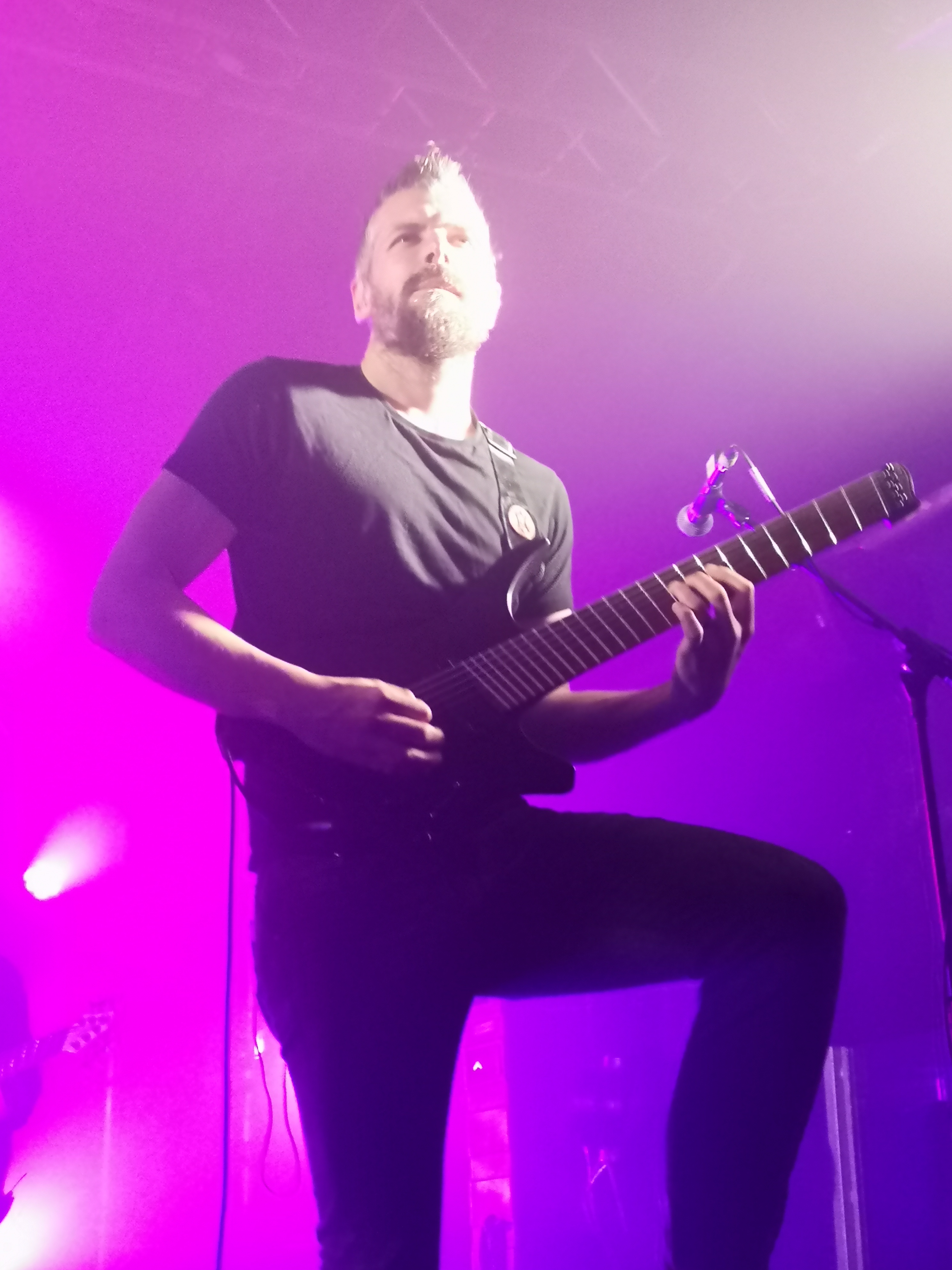 Haken's Richard Henshall live at Magazzini Generali, Milan, on March 9th, 2019